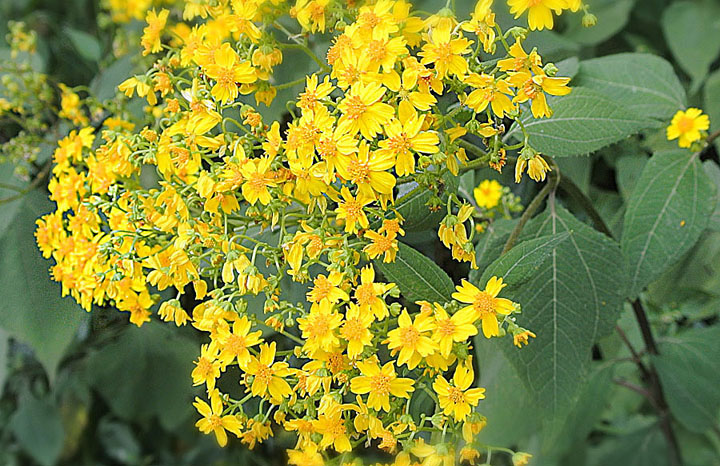 A large bush with distinctive leaf venation. Reported mainly from here in the mountains of southern Mexico.